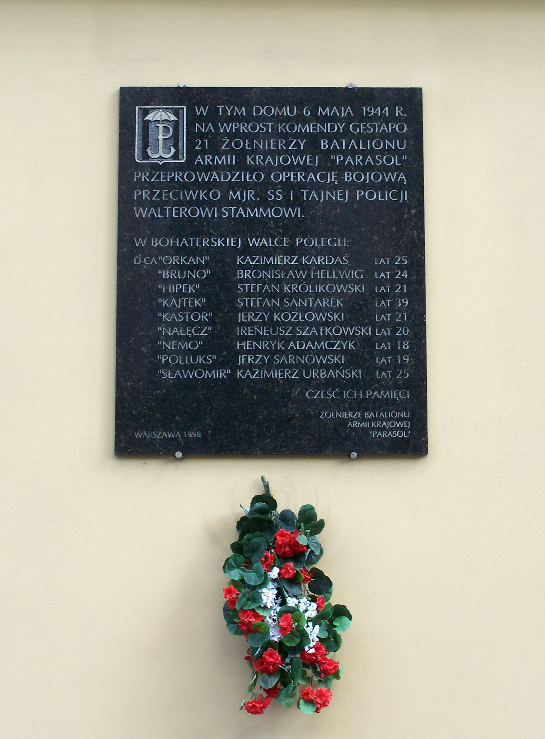 Memorial plaque to the soldiers of "Parasol" Battalion of Armia Krajowa (Home Army) in Warsaw, Poland